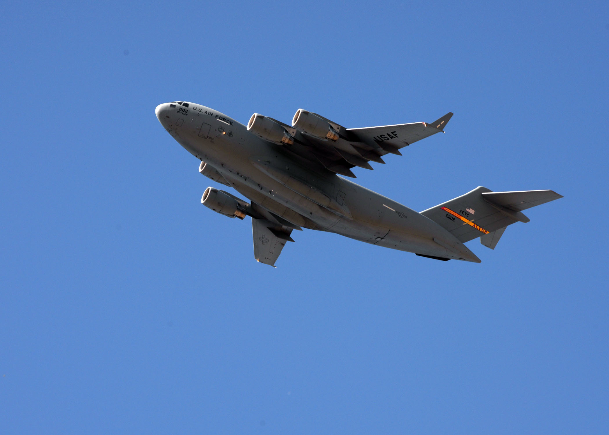 A U.S. Air Force C-17 Globemaster III cargo aircraft assigned to Altus Air Force Base flies over Henry Post Army Airfield during a joint training exercise Nov. 6, 2014. Fort Sill and Altus AFB conducted a joint training exercise that consisted of a C-17 transporting High Mobility Artillery Rocket Systems to aid the Global War on Terrorism. (U.S. Air Force photo by Senior Airman Franklin R. Ramos/Released) Unit: 97th Air Mobility Wing, Public Affairs DVIDS Tags: c-17; flight operations; air force